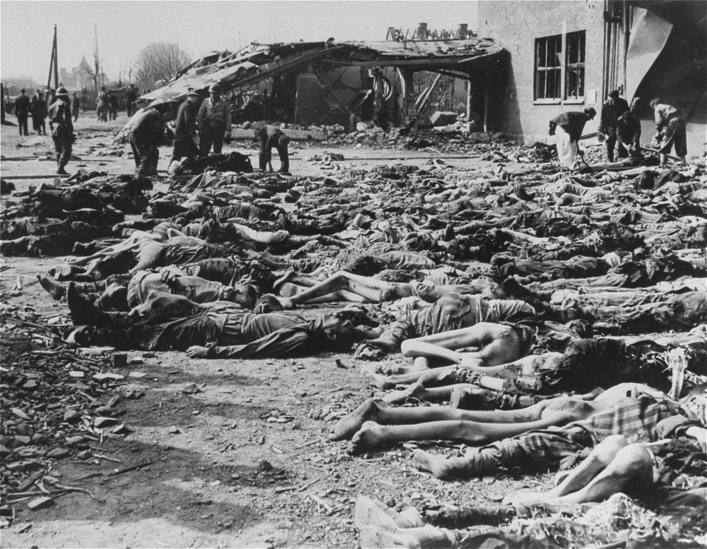 American troops supervise the burial of hundreds of corpses by German civilians from the nearby town of Nordhausen.